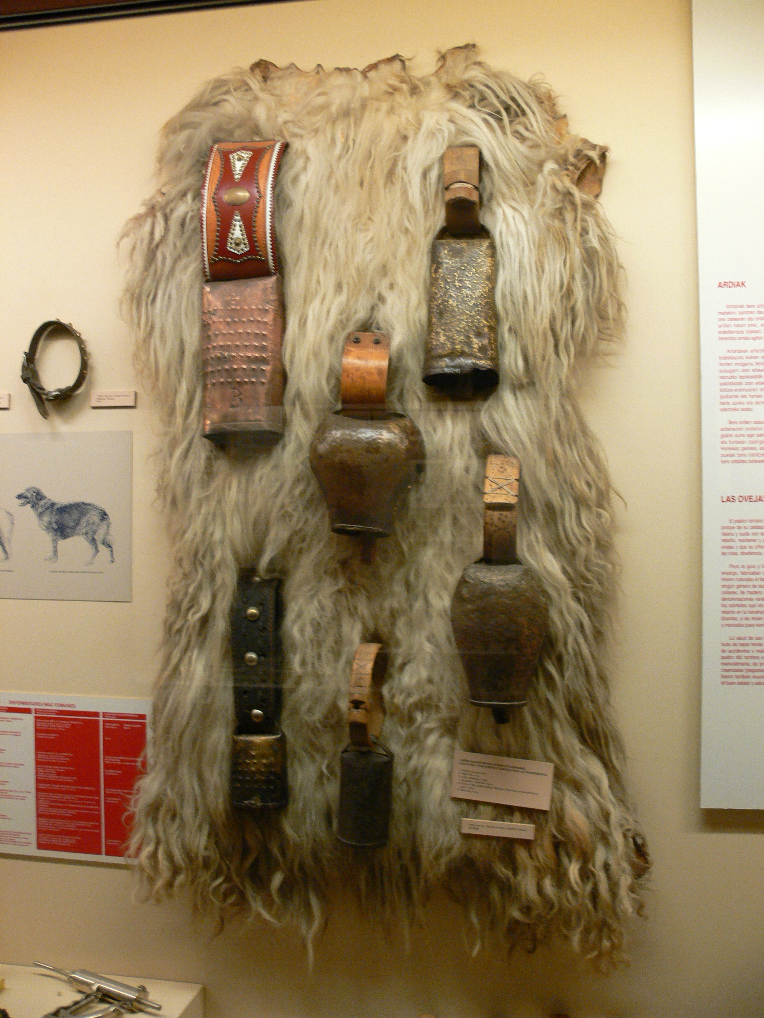 Sheep bells.